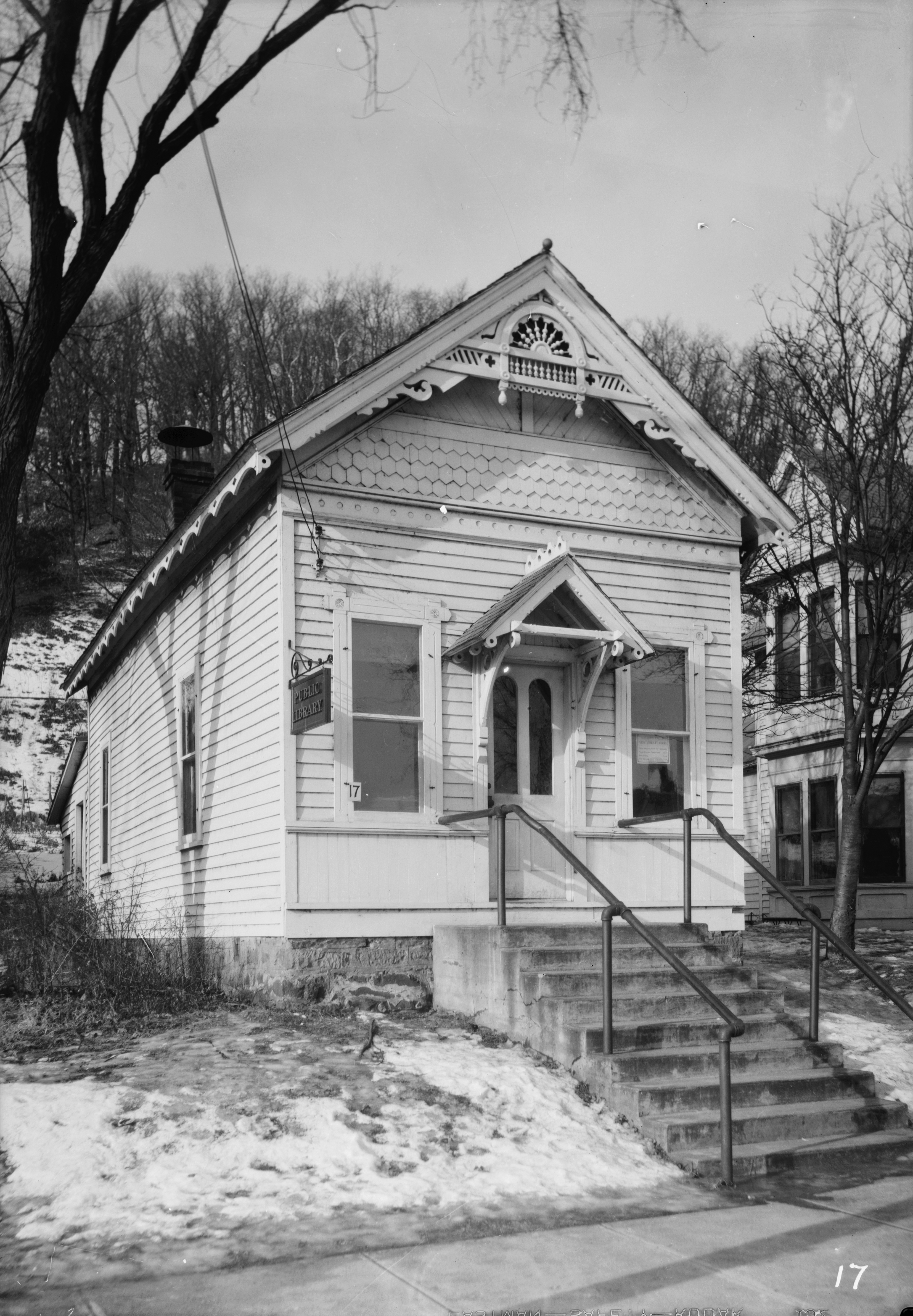 Branch Street Library, Taylors Falls, Chisago County, MN